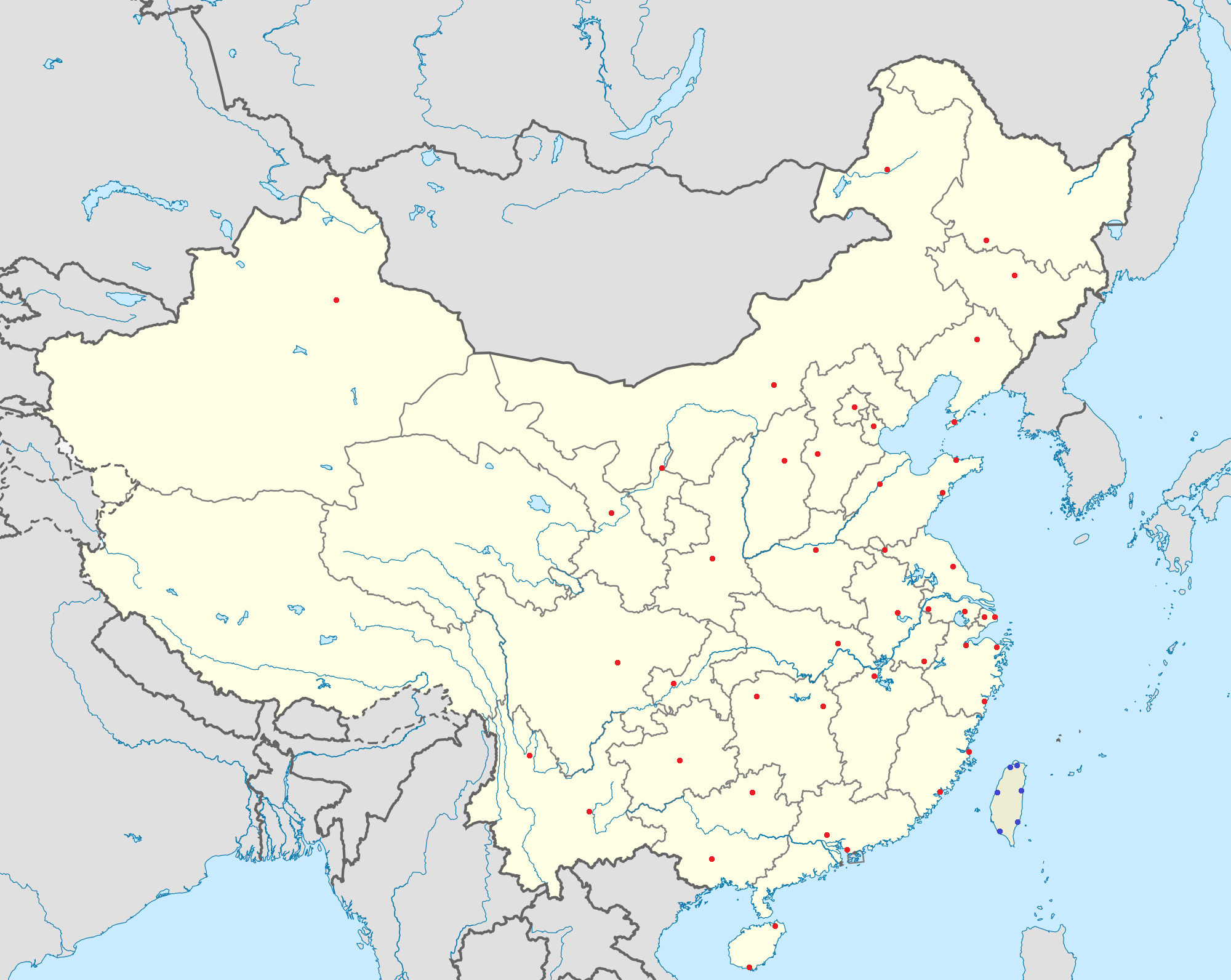 The airports of cross strait charter in Taiwan and China during Jun 2013. Blue spots present opened airports in Taiwan. Red ones present which in China.